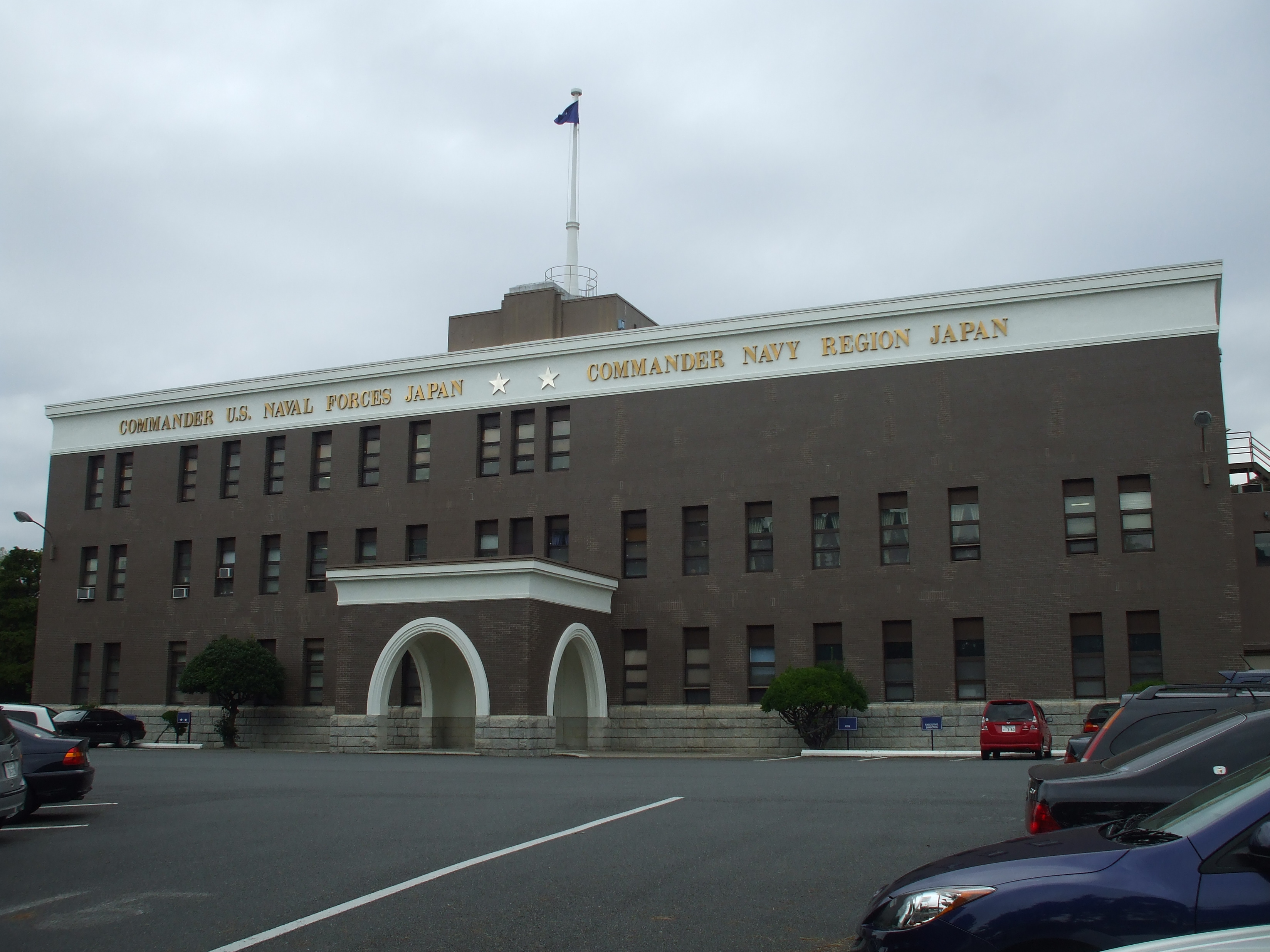 Commander U.S. Naval Forces Japan